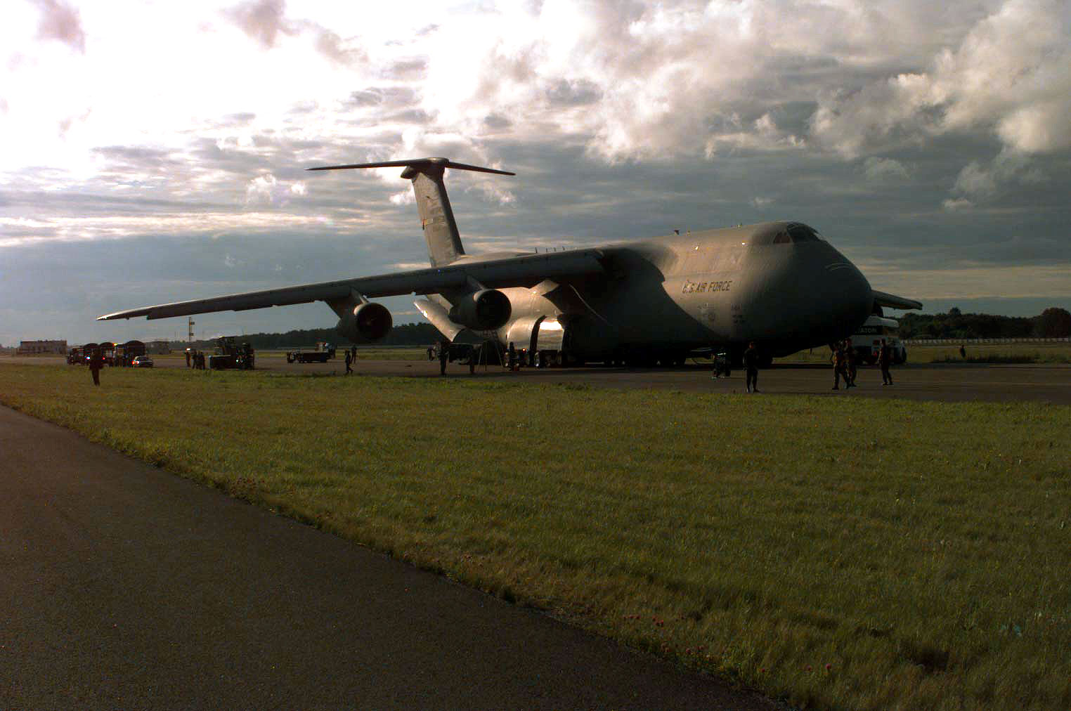 A U.S. Air Force C-5A Galaxy unloads 44 Marines and 29 pallets of their equipment at the airport in Tallinn, Estonia, on July 11, 1997, for Exercise Baltic Challenge 97. Baltic Challenge '97 is a multinational exercise conducted as a NATO Partnership for Peace initiative involving more than 2,600 military personnel from Denmark, Estonia, Finland, Latvia, Lithuania, Norway, Sweden, and the U.S. The focus of the training is peacekeeping tasks and humanitarian assistance operations.